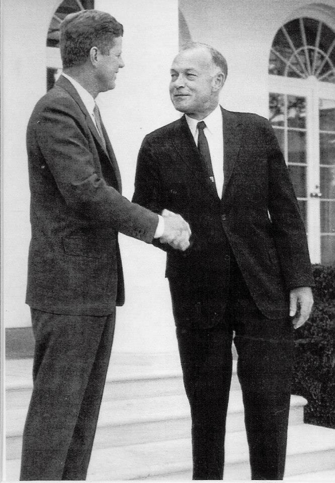 Don Magnuson and President John Fitzgerald Kennedy, ca. 1962.